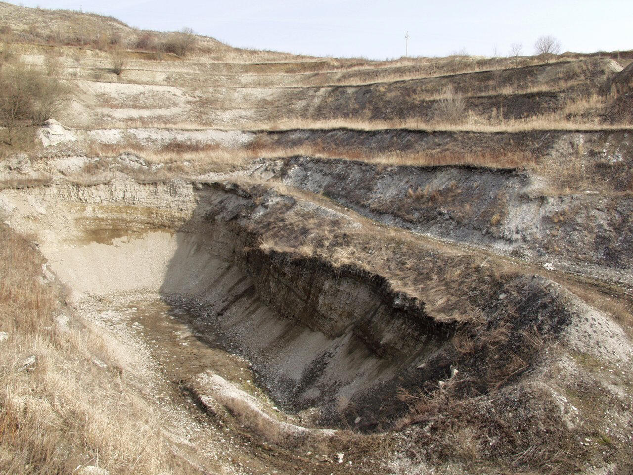 Alginit mine in Pula; Hungary